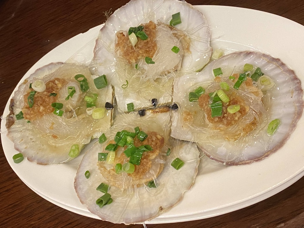 Syun jung fan si zing sin bui (steamed scallops with minced garlic and glass noodles)